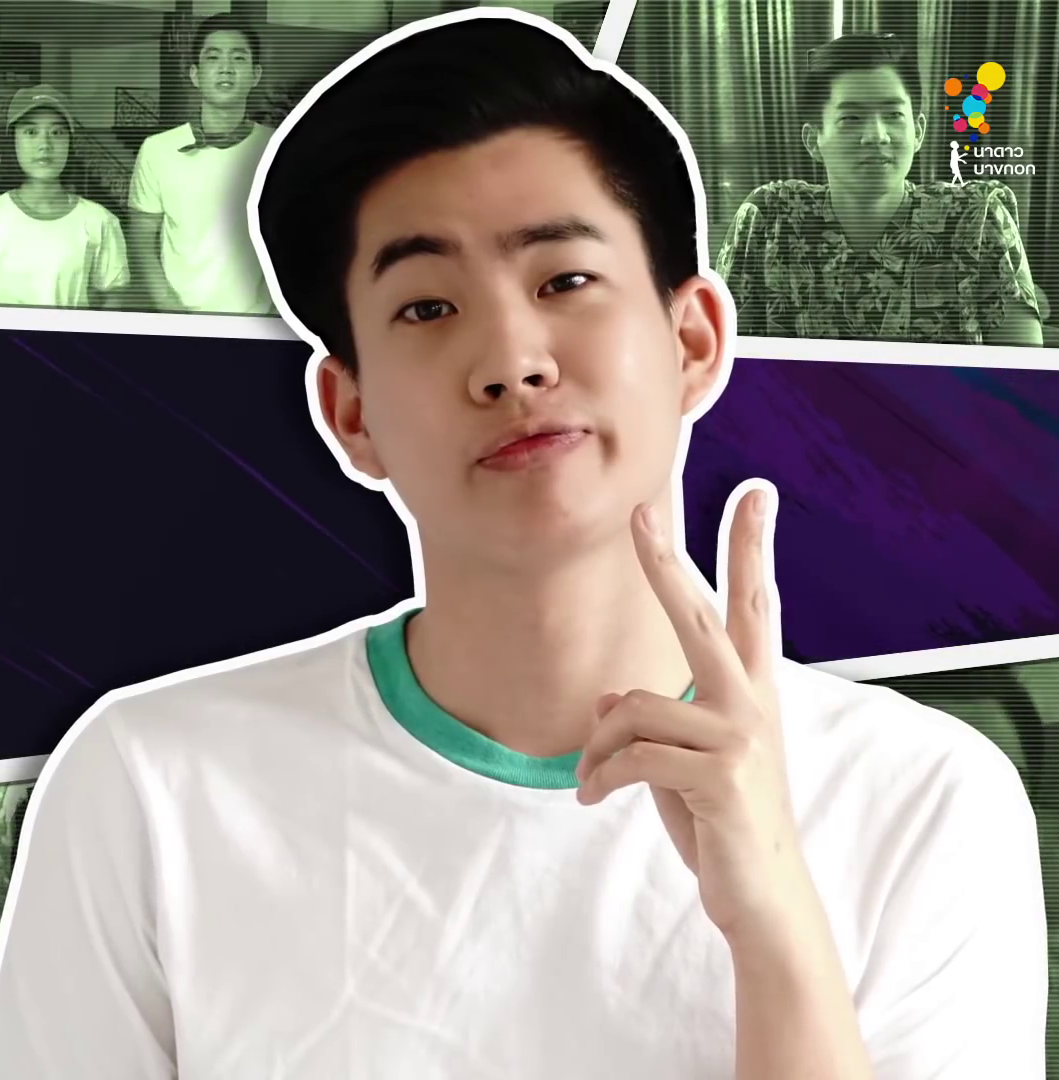 Jumpol Adulkittiporn, screen capture from promotional video for Game of Teens